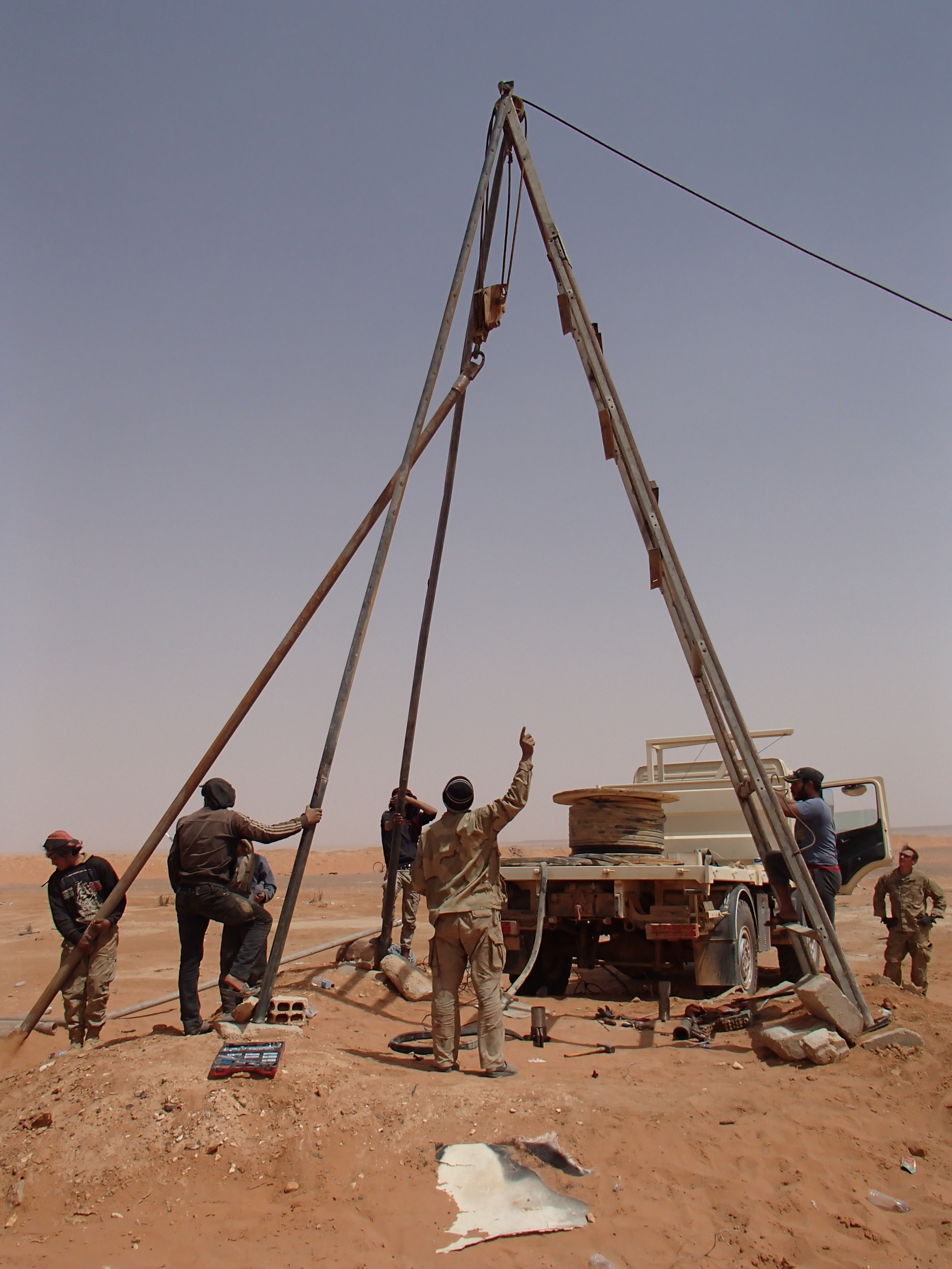 Members of the Revolutionary Commando Army and a US Army soldier repair a water well in an-Tanf, Iraq–Syria border.